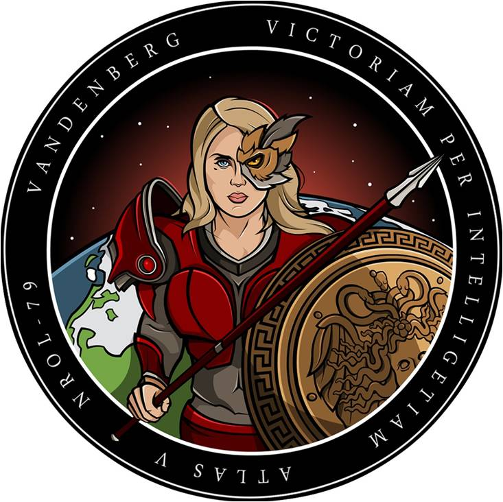 The mission patch for the NRO 79 satellites has a woman warrior with an owl-eye “modification” and a Medusa shield to carry out “Victory With Intelligence” in Latin on the shield.